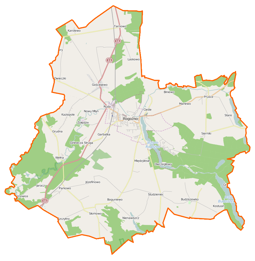 Map of Gmina Rogoźno, Poland This map of Rogoźno (gmina) was created from OpenStreetMap project data, collected by the community. This map may be incomplete, and may contain errors. Don't rely solely on it for navigation. Border coordinates52.835816.8414←↕→17.138752.6522